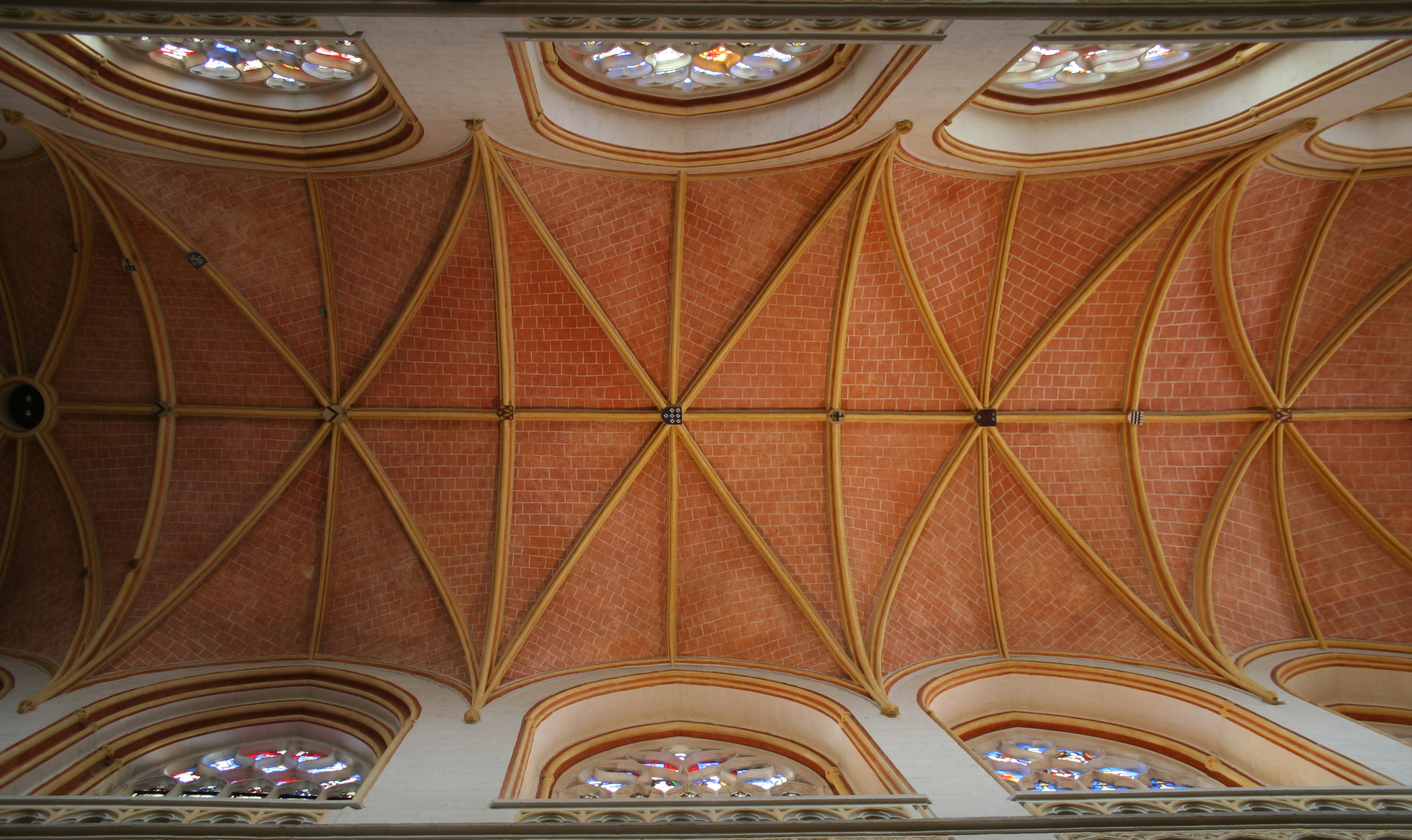 Vault of the nave in Saint-Corentin cathedral in Quimper, Finistère département, Brittany, France